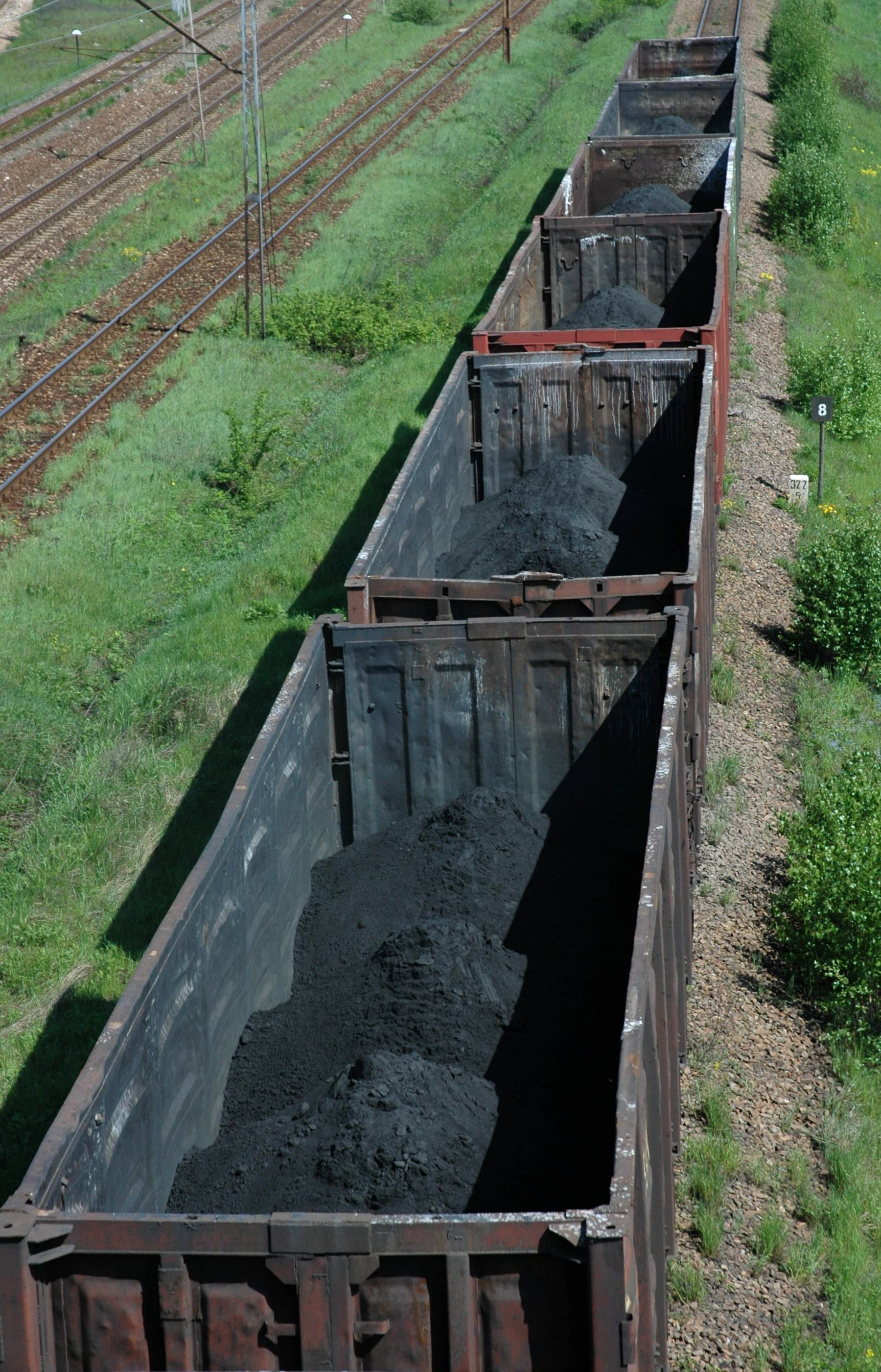 Transport of iron ore by railway, the photo was taken between Sędziszów station and Kępie passing loop, the Broad Gauge Metallurgy Line, Poland